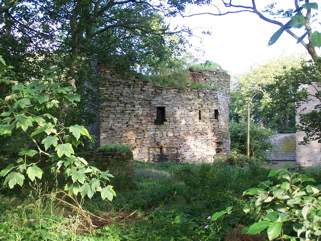 Castle ruin at Braal Castle